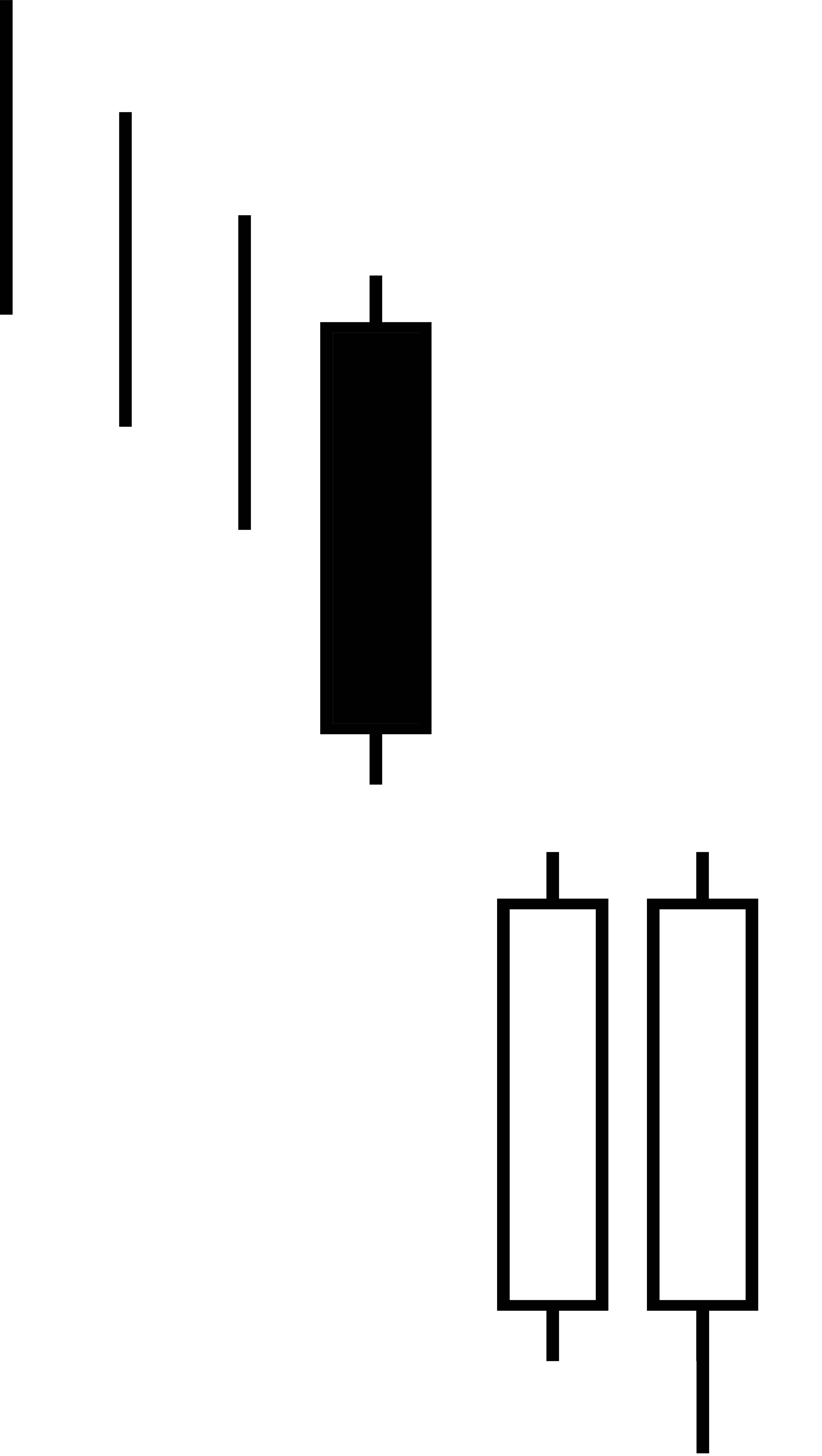 bearish Side-by-Side White Lines